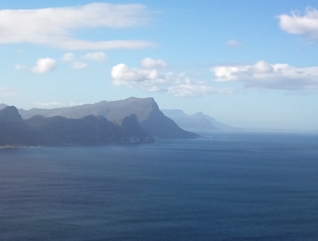 View of Millers Point. Cape Peninsula. South Africa.